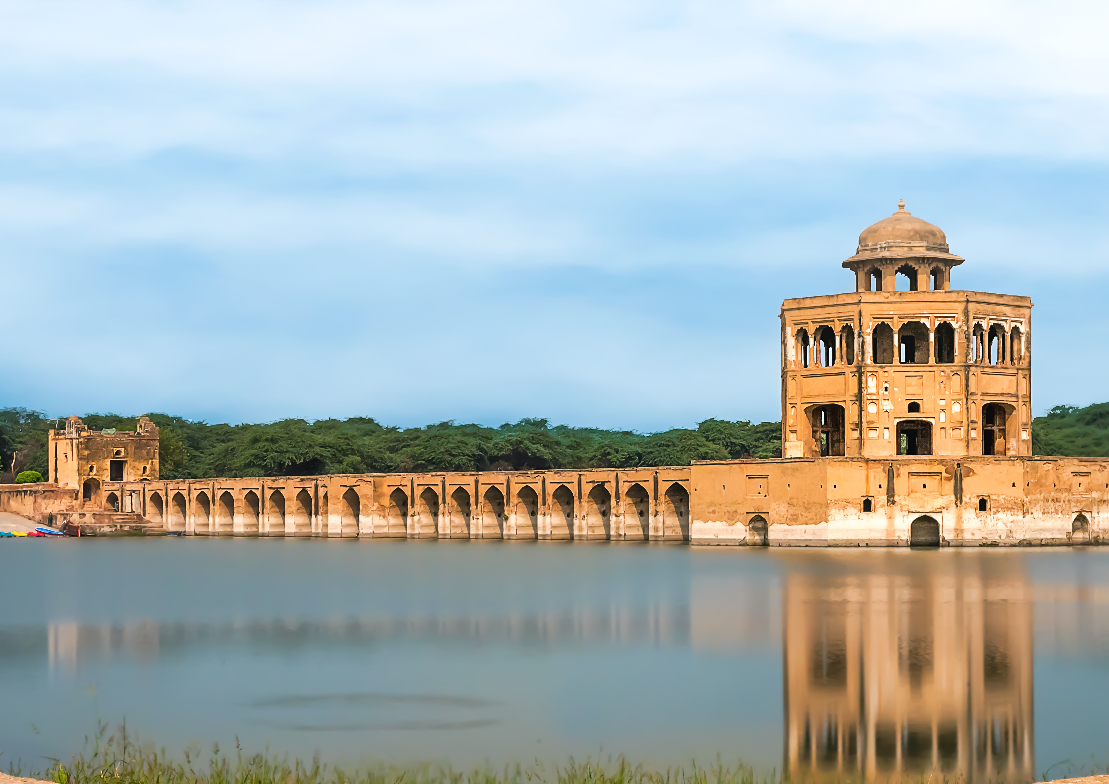 Hiran Minar and Tank This is a photo of a monument in Pakistan identified as the PB-145